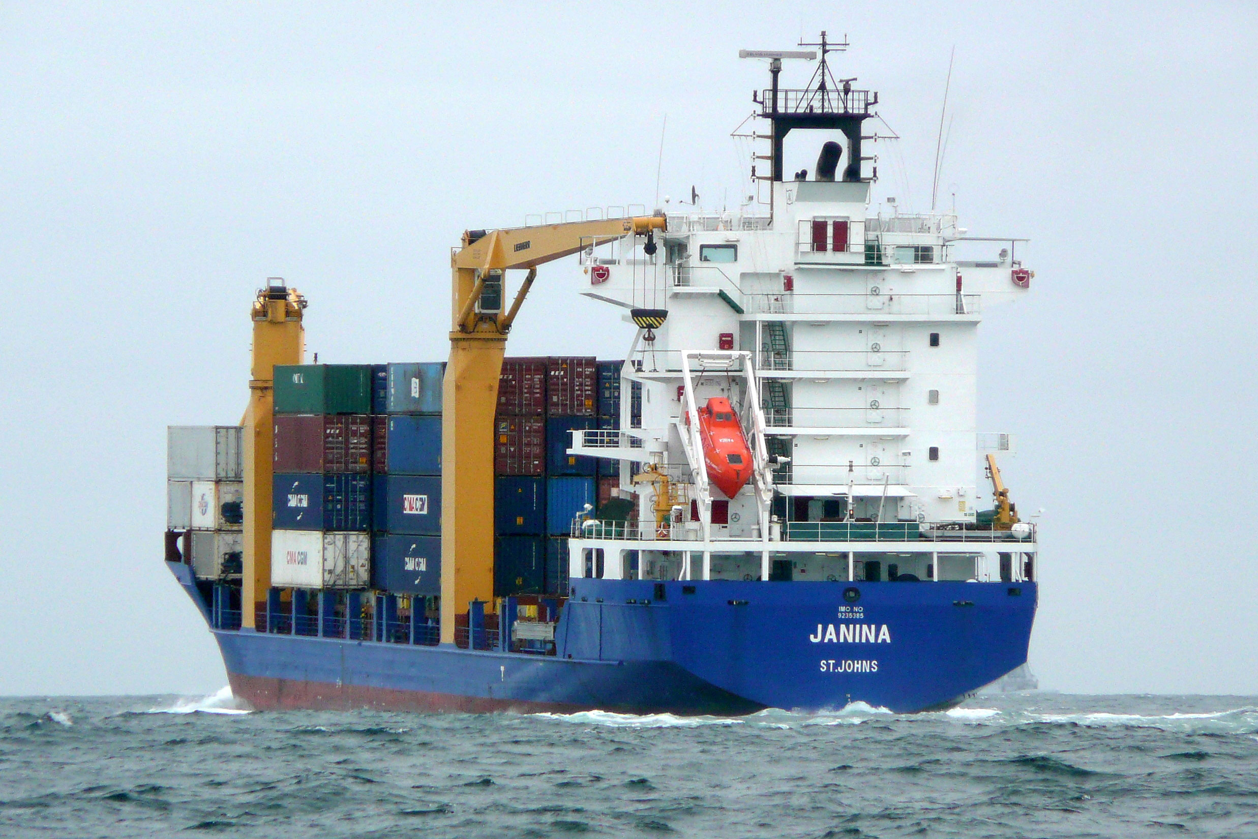 Porte container Janina of the CMA-CGM company near Brest (France)